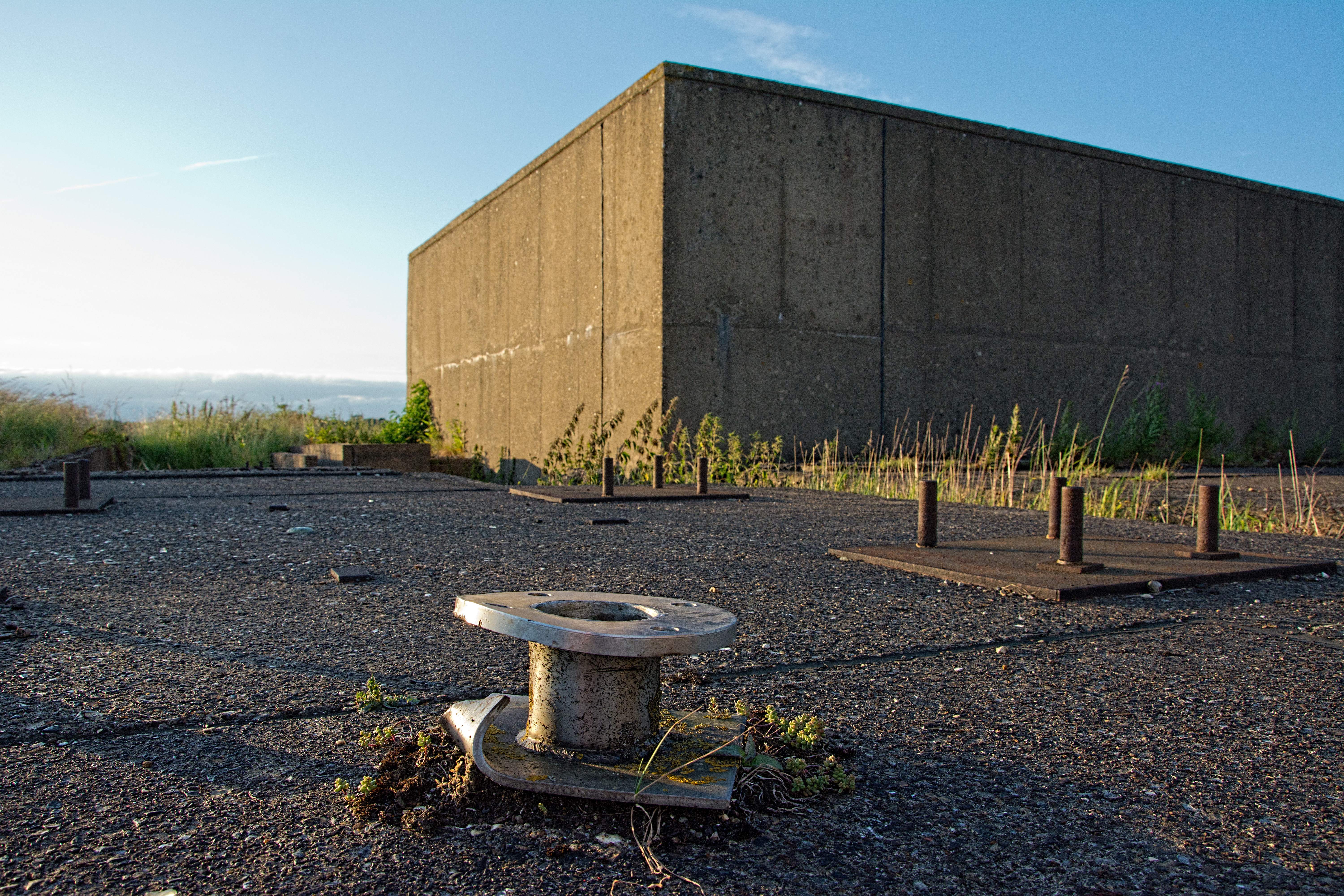 RAF Harrington became a Thor missile site in 1959. Thor missiles were the first operational Intermediate-range Ballistic Missile (IRBM) system deployed by the West during the Cold War.